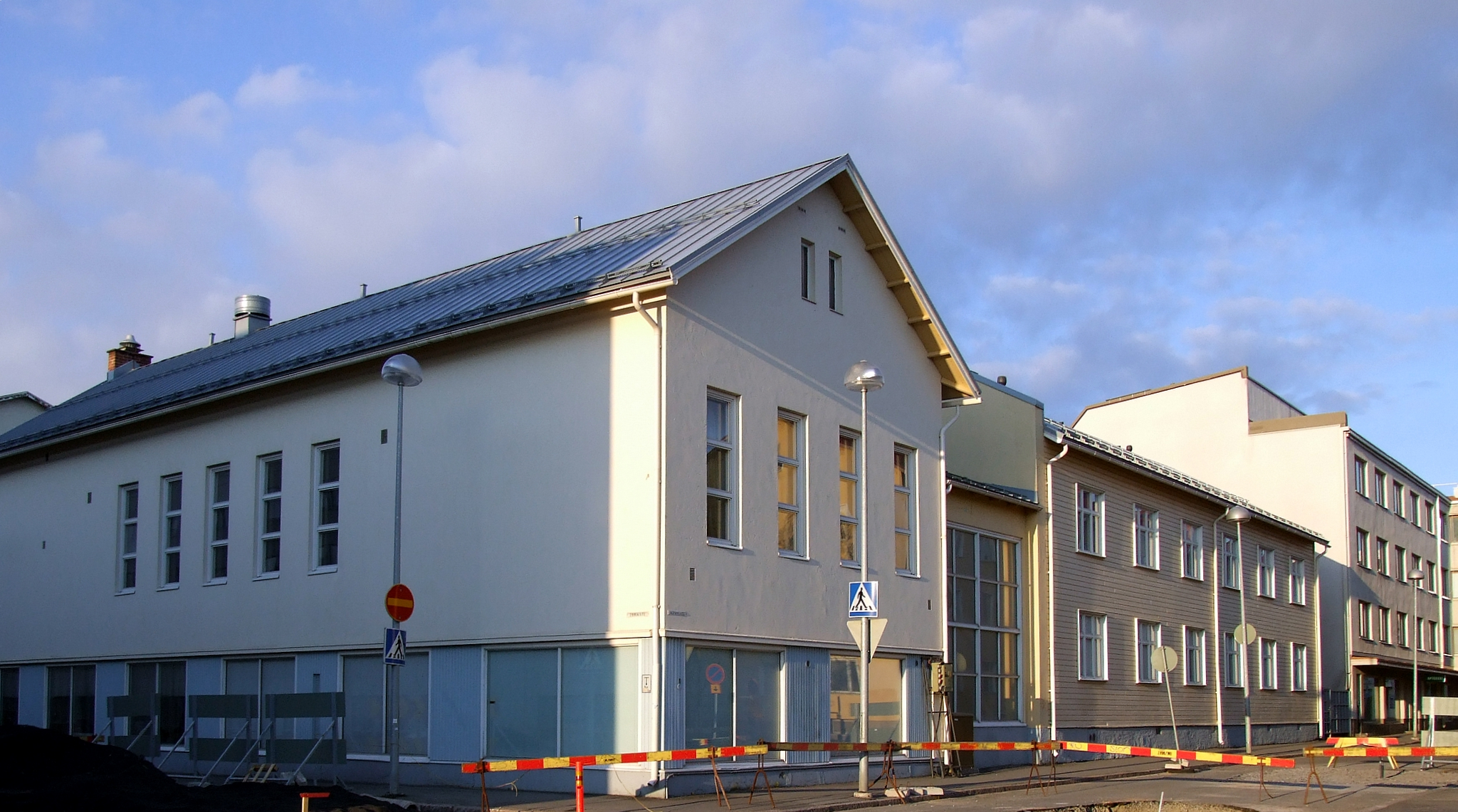 "Svenska Privatskolan i Uleåborg" is a private school for swedish-speaking pupils in Oulu, Finland.